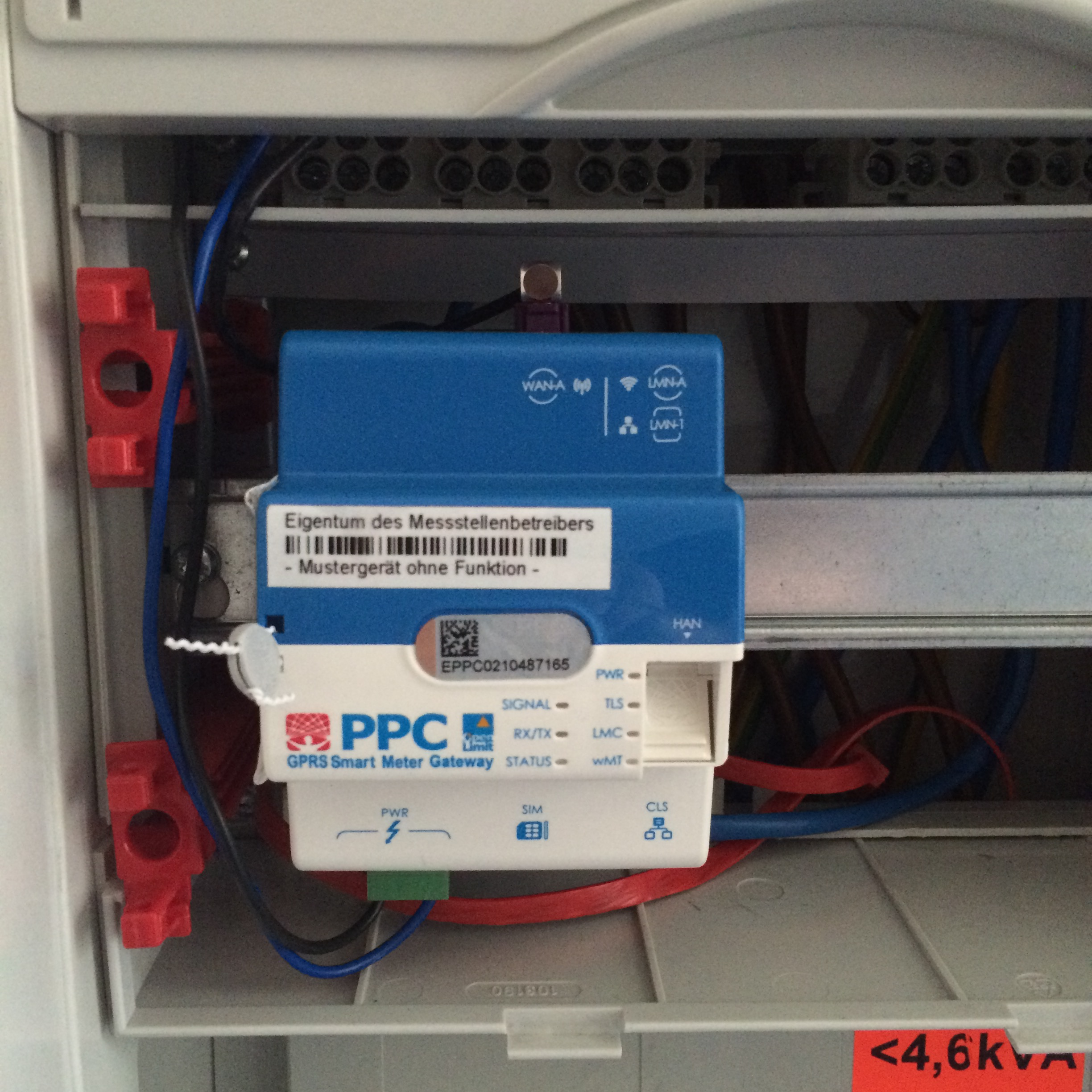 Smart Meter Gateway Installed on a DIN Rail in a Meter Cabinet